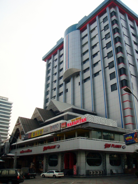 Sarinah Building, the house for one of the earliest modern-style department stores in Jakarta.